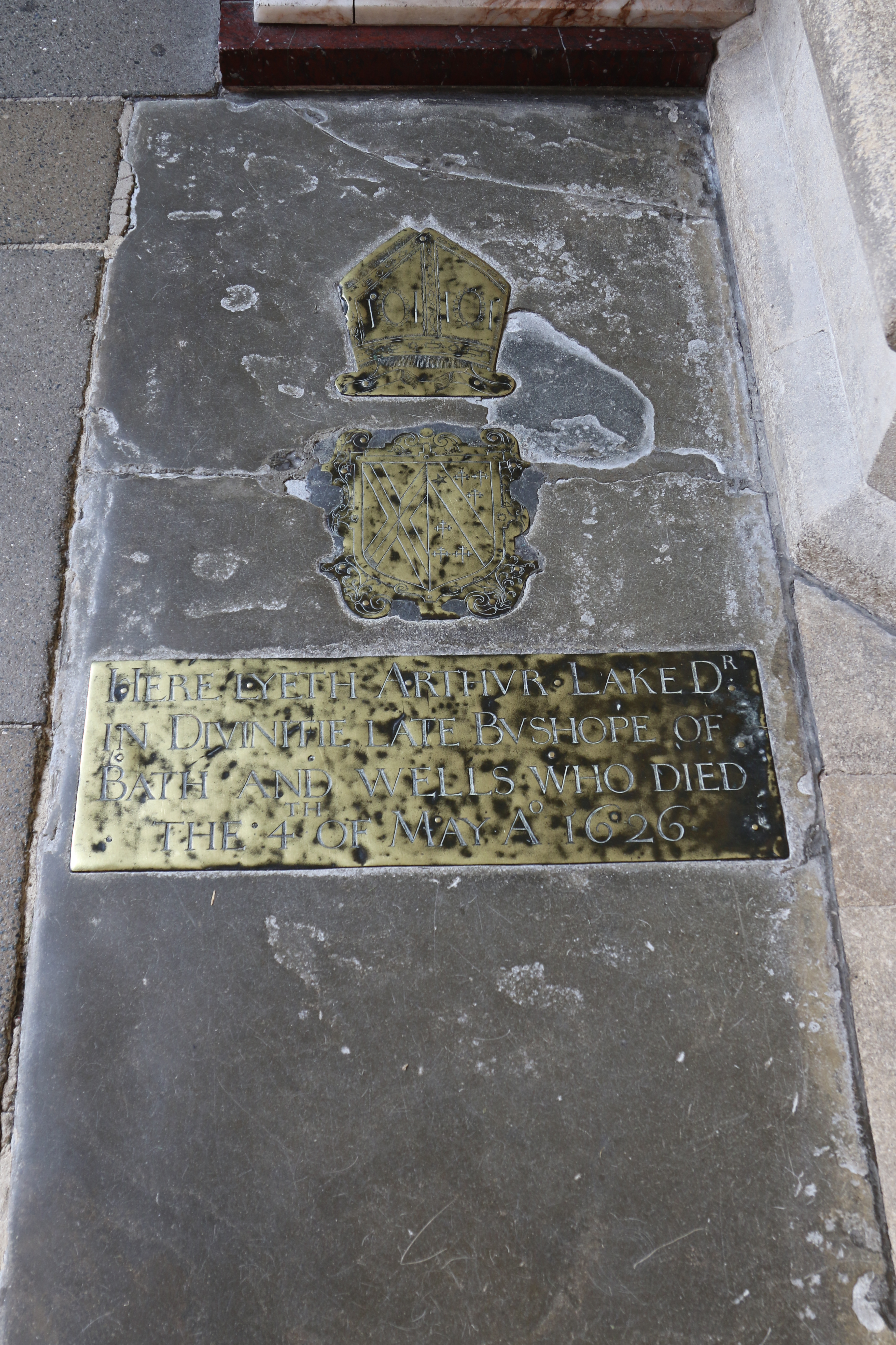 Here Lyeth Arthur Lake Dr in Divinitie Late Bishope of Bath and Wells who died the 4th of May AD 1626